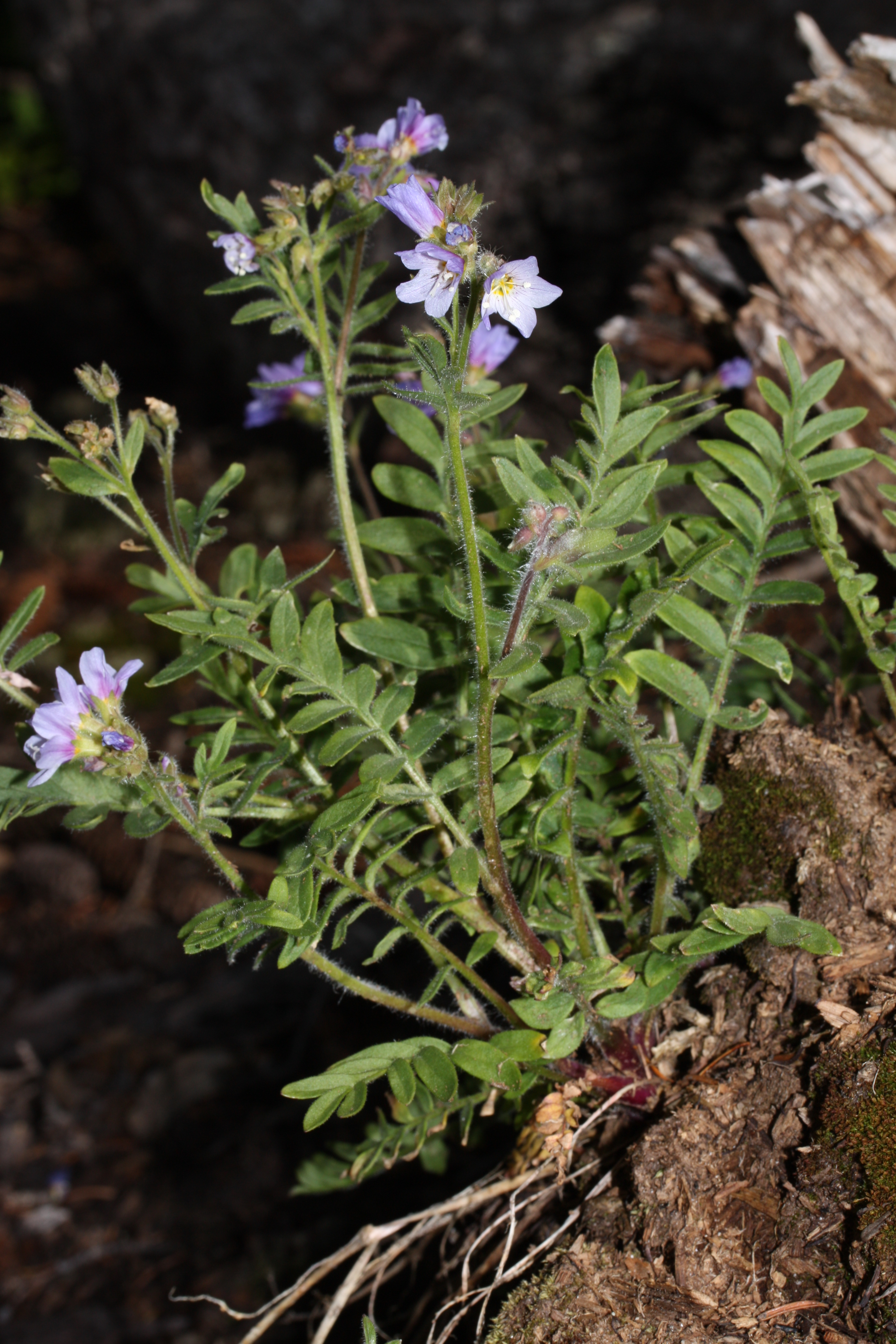 Skunk-leaved Polemonium, Showy Polemonium